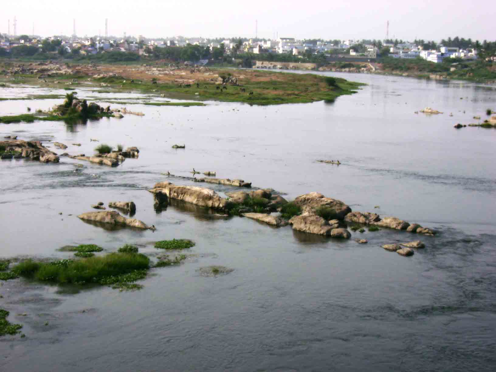 River Cauvery seen through train en route to Erode.